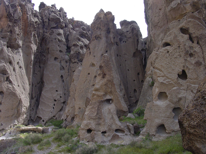 USGS, Mojave National Preserve, Taphoni-style weathering creates the holes in the rock (in the canyon at Hole-In-The-Rock).